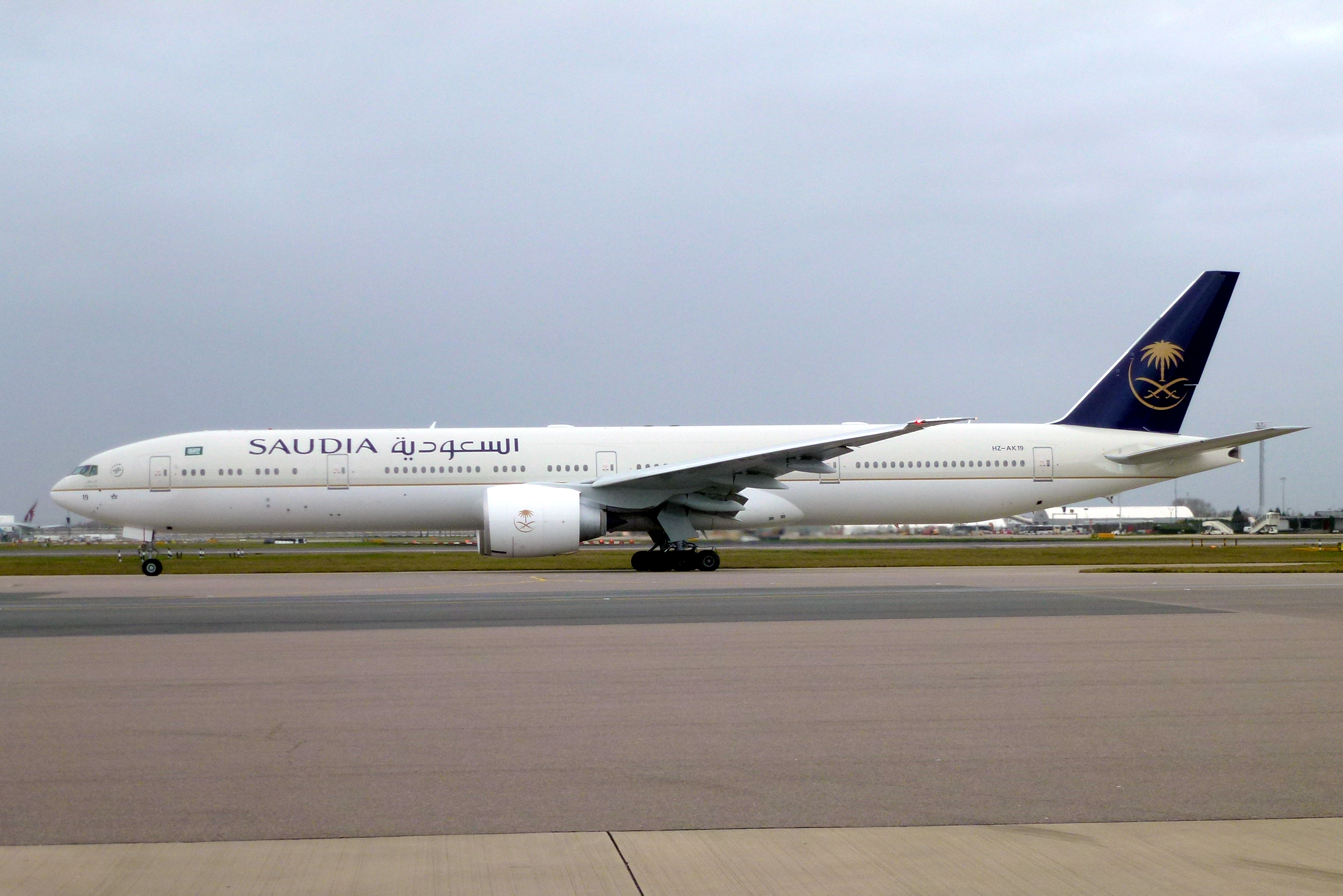 HZ-AK19 Boeing 777-300 Saudia on the outer taxiway heading for a 027R departure.